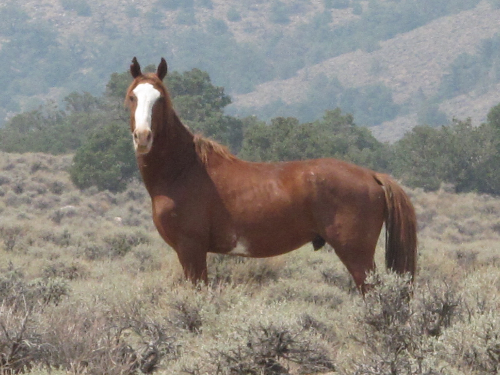 Wild Horse 'High Socks' in Fish Lake Valley